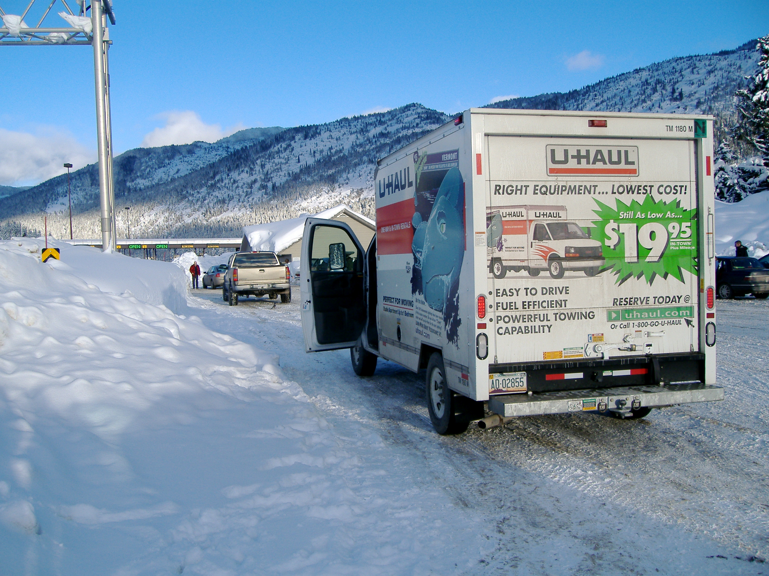 Taken on December 27th, 2006 at 3 PM Pacific.